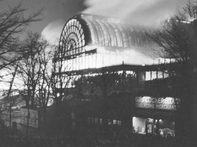 The Crystal Palace on fire on the night of 30 November 1936. It was totally destroyed.